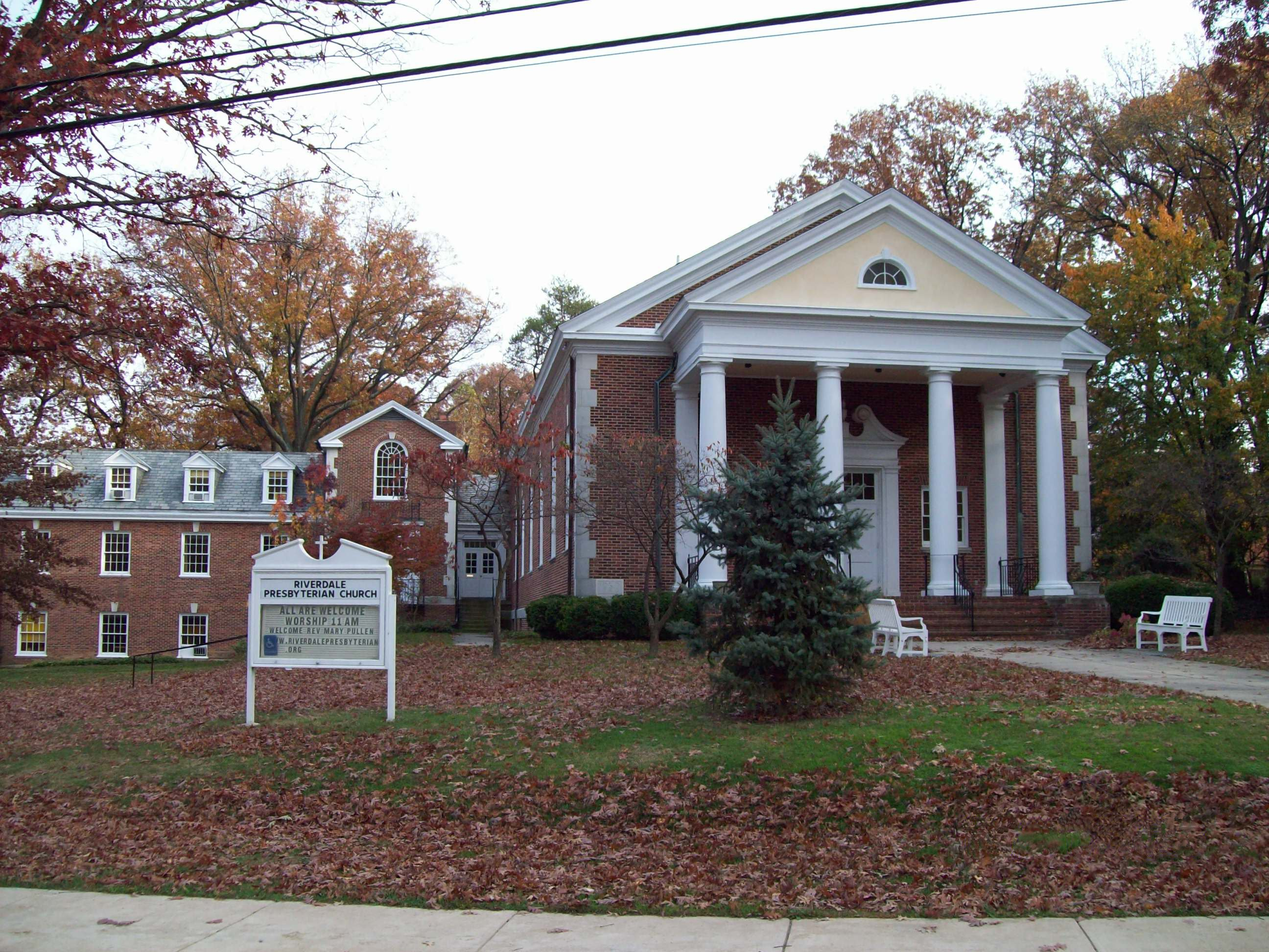 Riverdale Presbyterian Church, University Park, MD November 2008